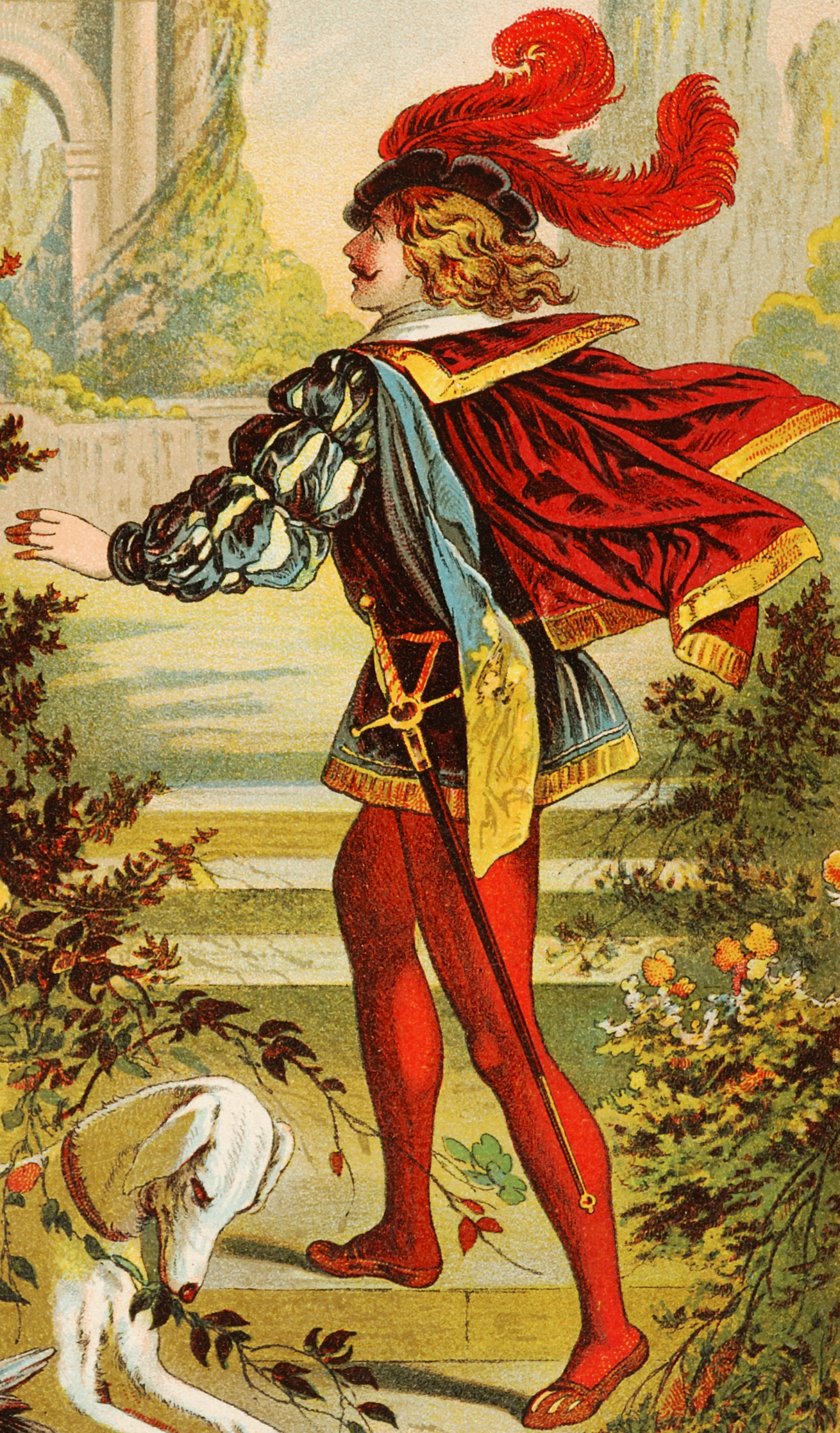 Illustration of Sleeping Beauty's prince.